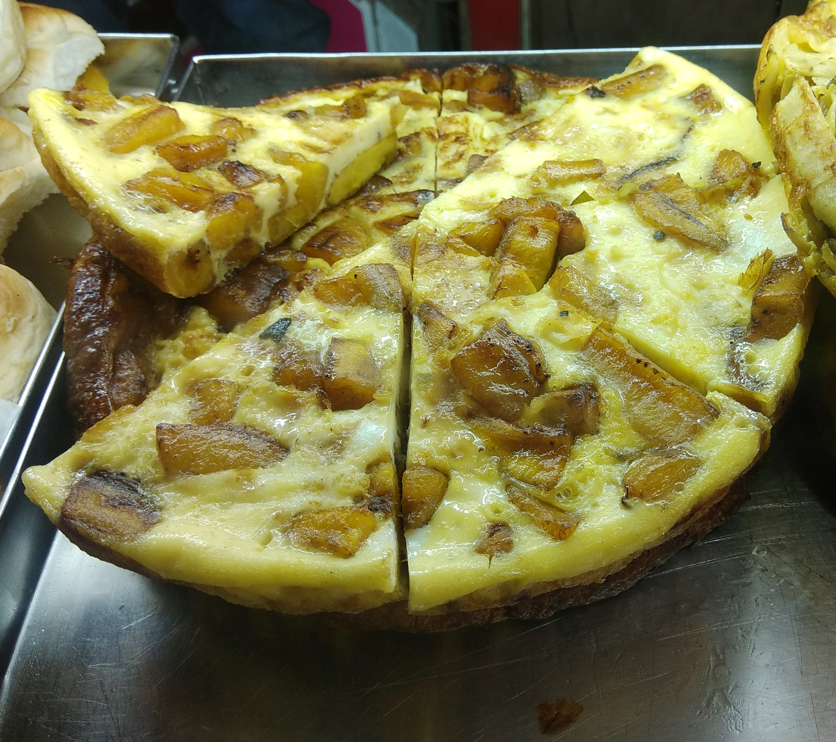 Kayappola a north malabar snack from kerala